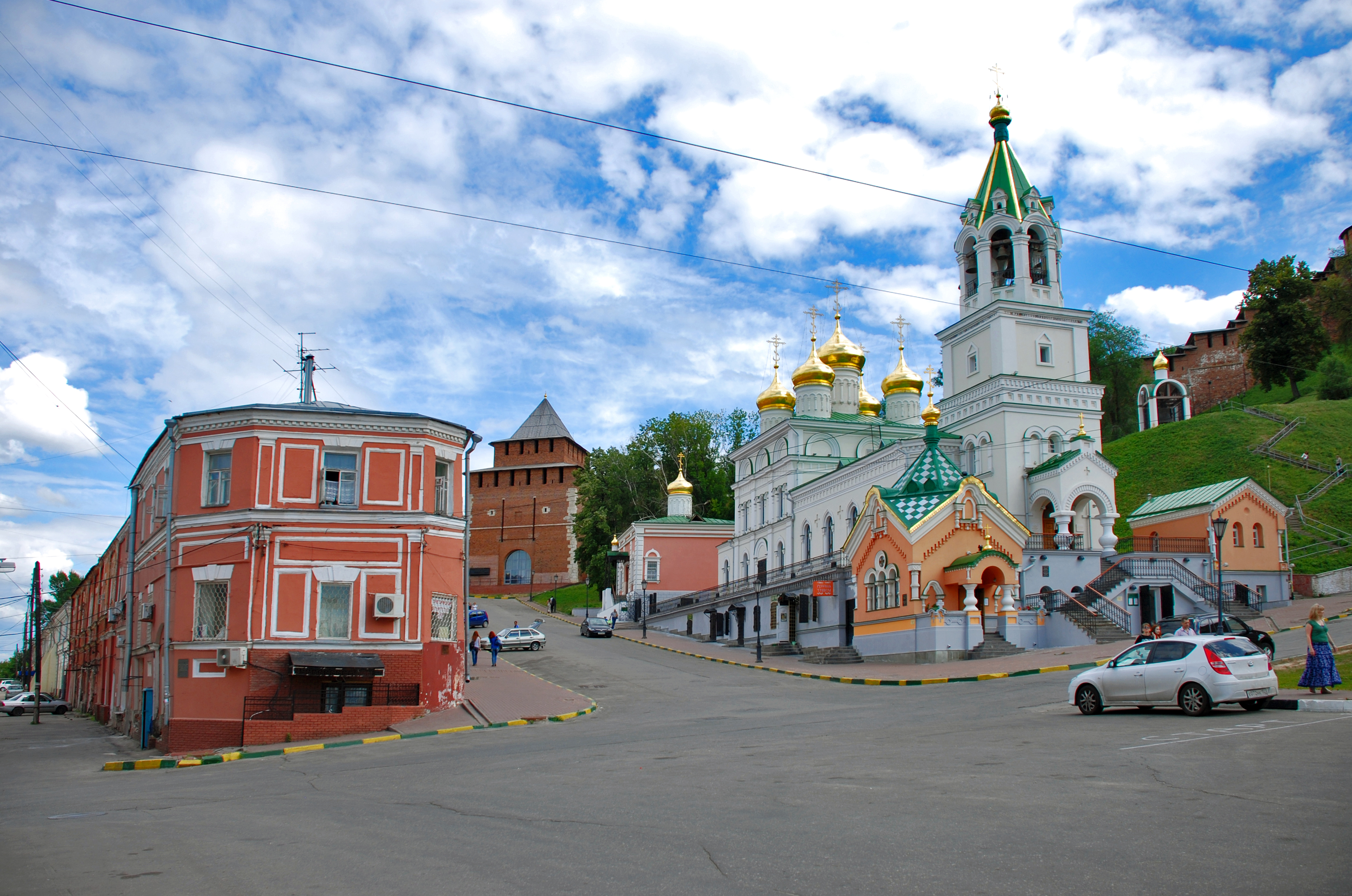 Church of St. John the Baptist with czar's chapel in Nizhny Novgorod